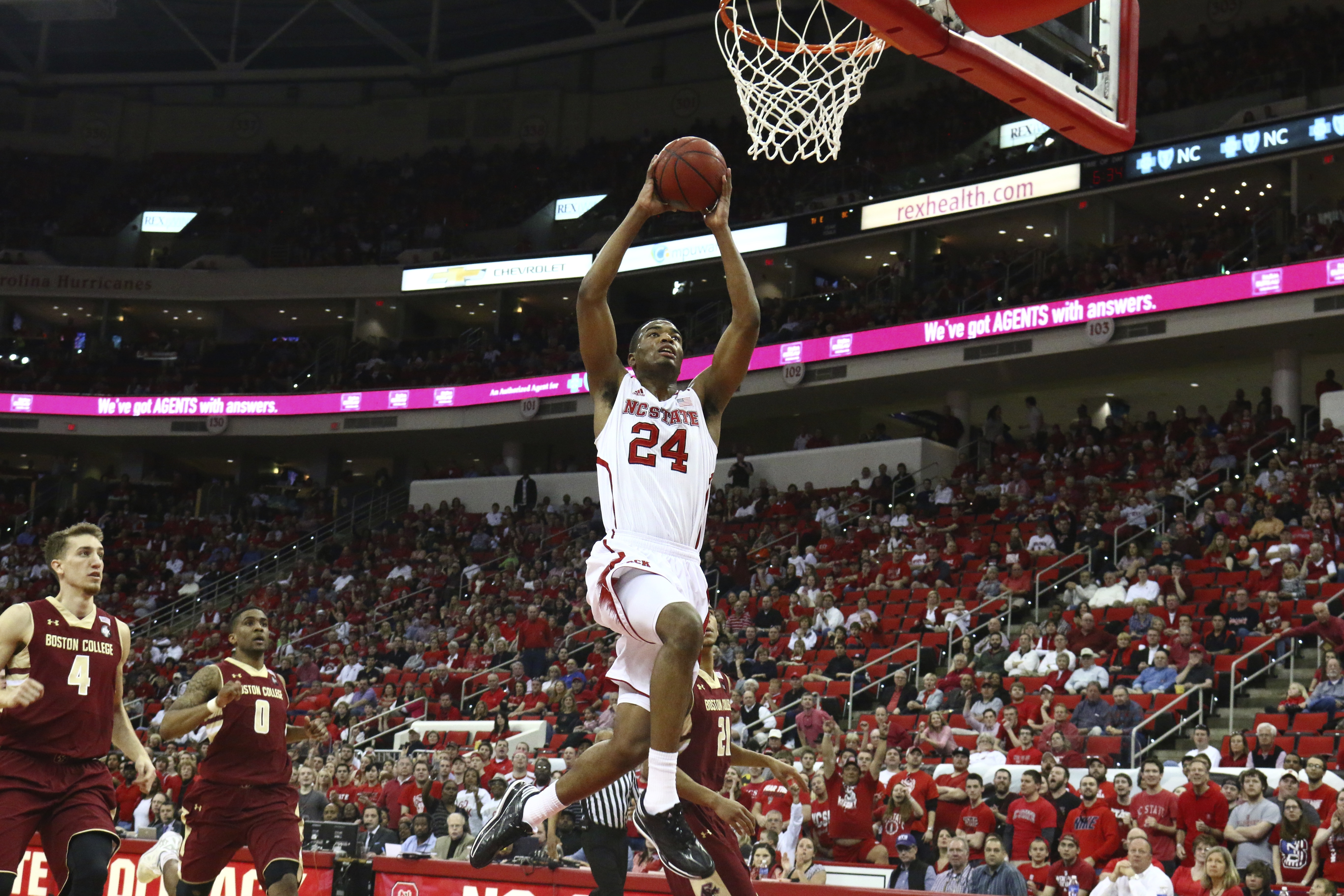 T.J. Warren (24) takes off for a dunk. NC State defeated Boston College 78-68 on March 9, 2014 at the PNC Arena in Raleigh, North Carolina. Photo by: Jerome Carpenter